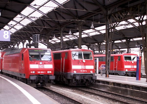 RE 1, 9, 4 - (NRW-Express, Rhein-Sieg-Express, Wupper-Express) in Aachen Central Station